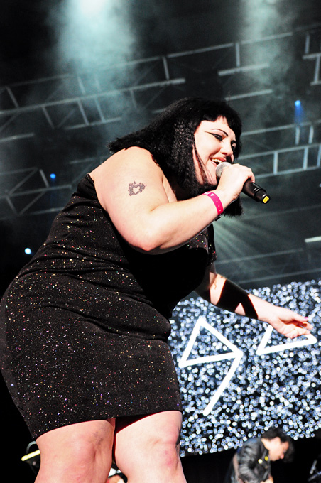 Parklife Festival 2011